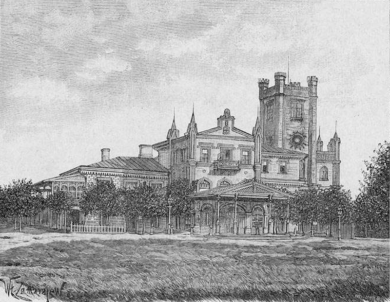 Lentvaris Palace, Lithuania